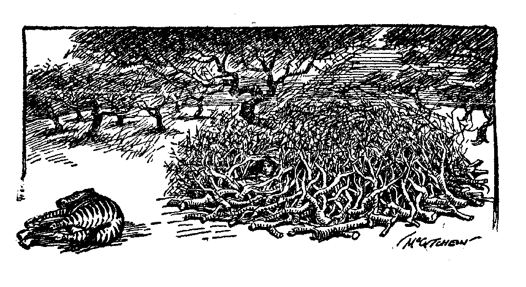 An illustration from In Africa: Hunting Adventures in the Big Game Country. Text and illustrations by John T. McCutcheon, a cartoonist with the Chicago Tribune. Published online by the Gutenberg Project here: The accompanying text is: The boma method is slightly more dangerous and much more exciting. A lot of thorn branches are twisted together in a little circle, within which the hunter sits and waits for his lion. As in the tree method, a bait is placed near the boma, twelve or fifteen yards away, and a little loophole is arranged in the tangle of thorn branches through which the rifle may be trained upon the bait. The lion cannot get into the boma unless he jumps up and comes in from the top. It is the function of the hunter to prevent this strategic manœuver by killing the lion before he gets in. If he does not, he is likely to find himself engaged in a spirited hand-to-hand fight with an unfriendly lion in a space about as big as the upper berth of a sleeping-car.